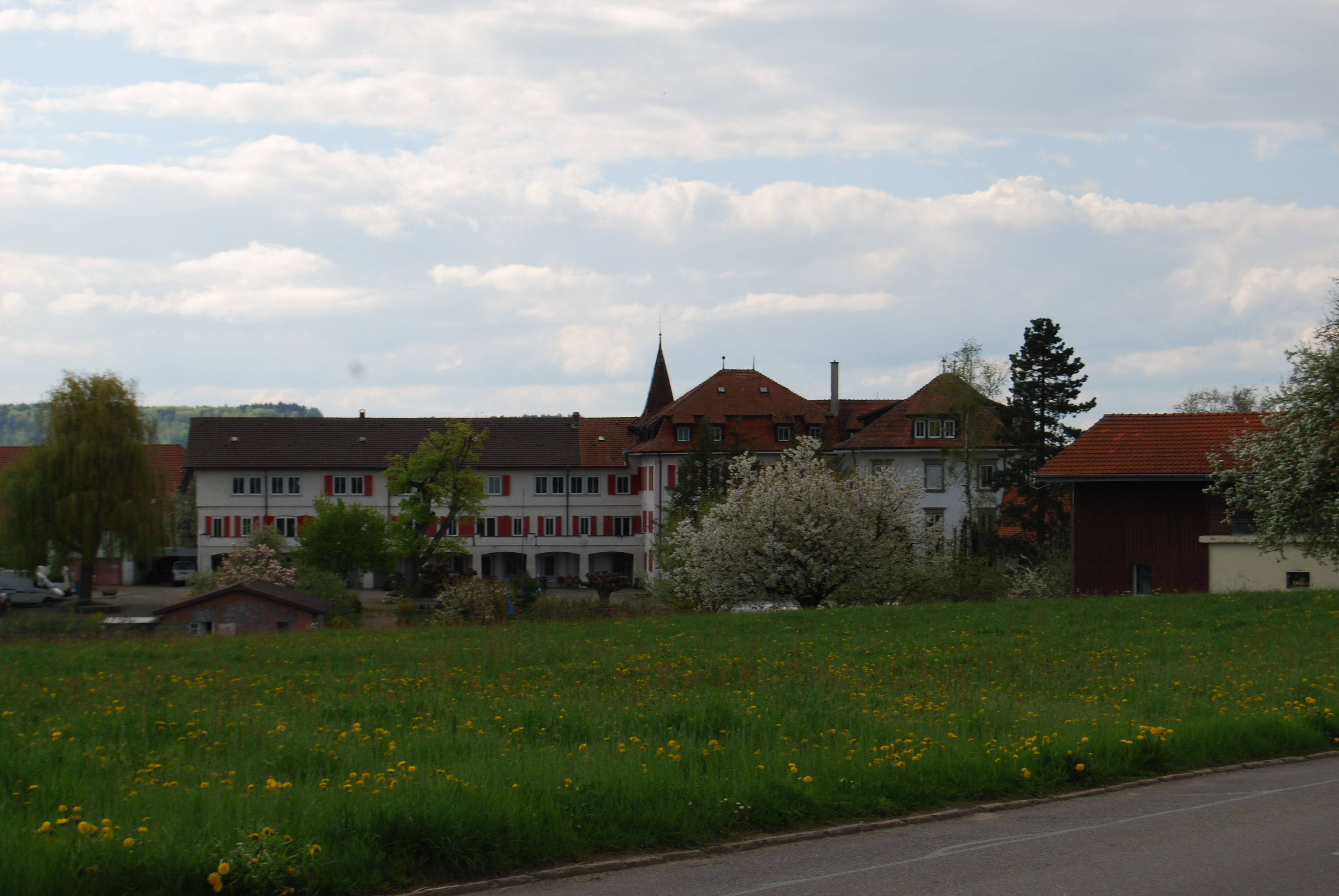 Orsonnens, municipality Villorsonnens, canton of Fribourg, Switzerland